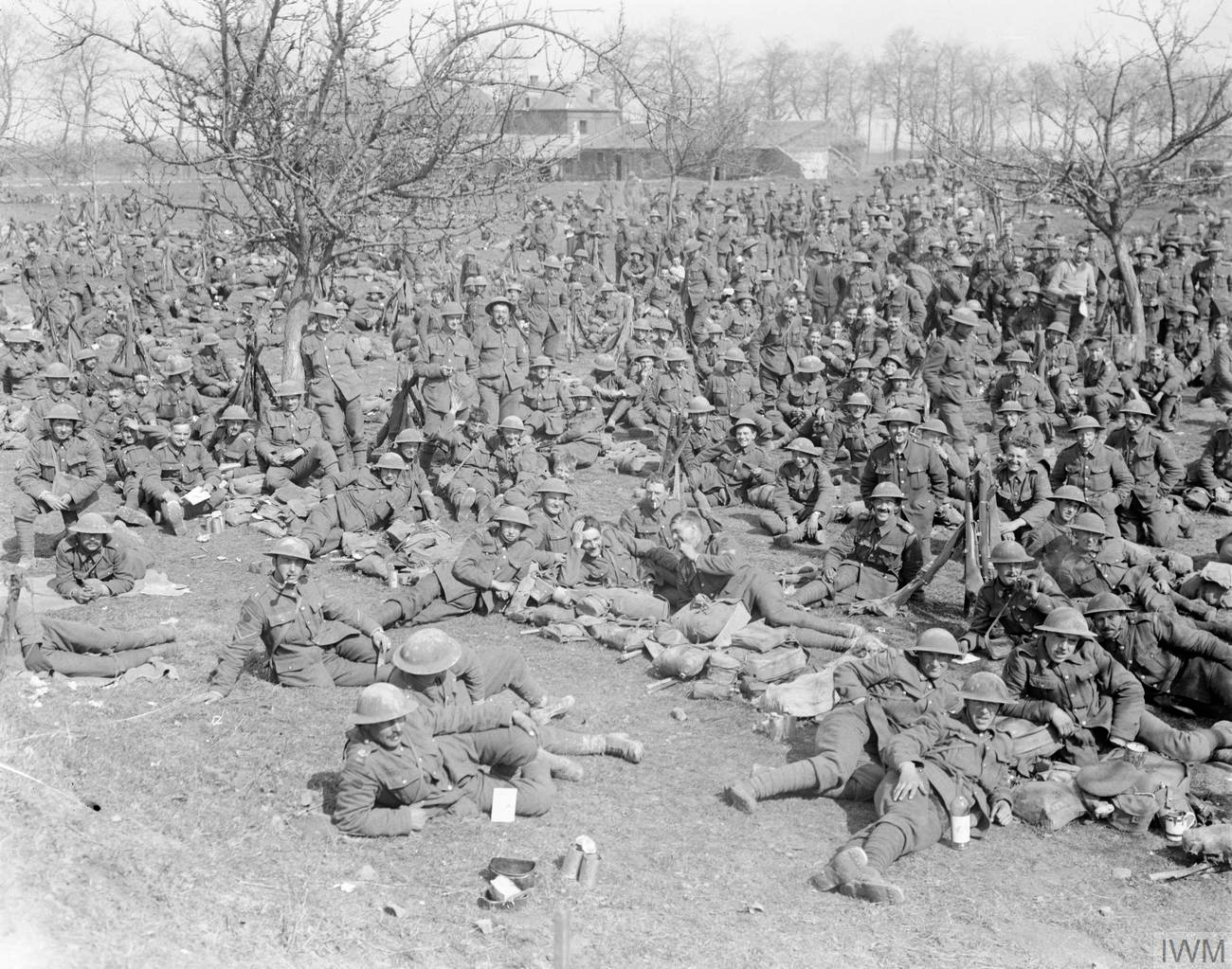 The Battle of Arras, April-may 1917 Troops of the 10th Battalion, Royal Fusiliers at Wagonlieu, 8 April 1917. This battalion took Monchy-le-Preux on 10 April 1917 with the loss of 12 officers and 240 other ranks.